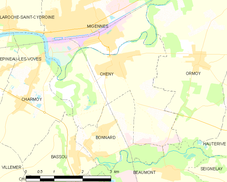 Map of French municipality Cheny